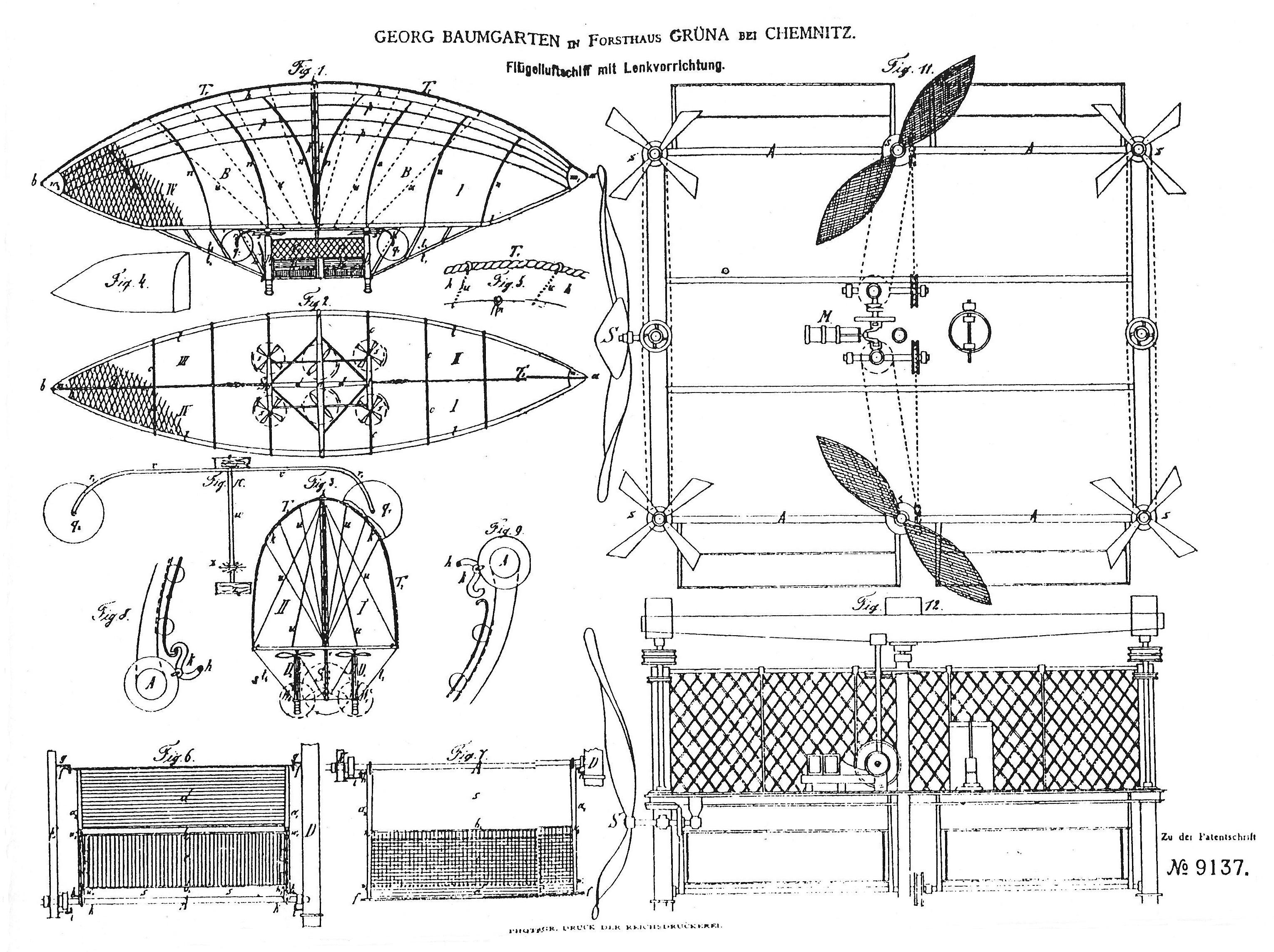 The drawing in Baumgartens main patent No. 9137